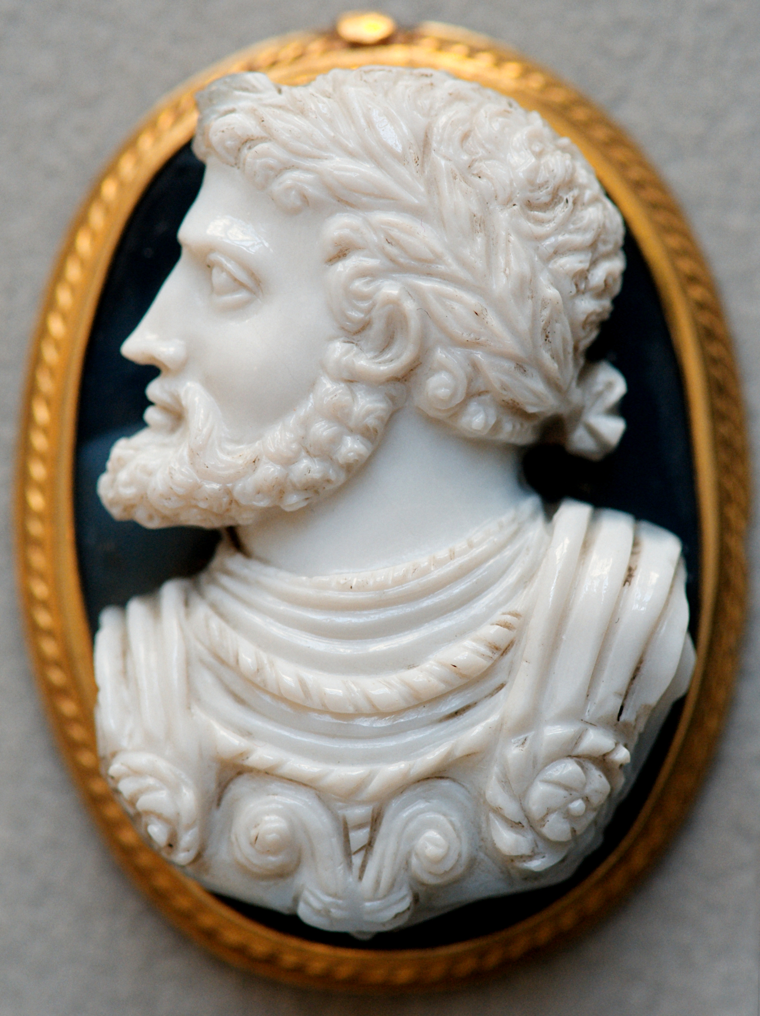 Charles V, Holy Roman Emperor. Agate-chalcedon cameo, Italian artwork.